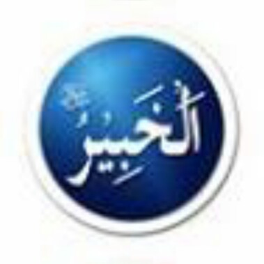 Al-Khabeer / The All Aware is a name of God in Islam, is a name of Allah.